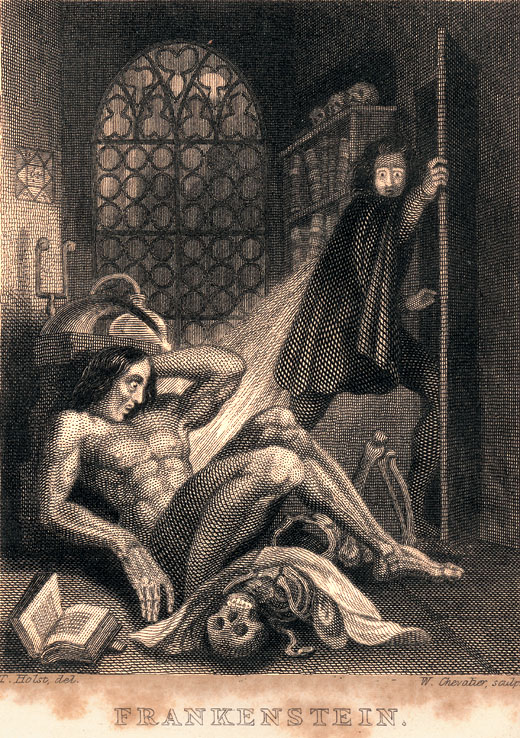 Frontispiece to Mary Shelley, Frankenstein published by Colburn and Bentley, London 1831 Steel engraving in book 93 x 71 mm